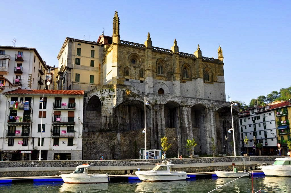 Andra Mari de Ondárroa